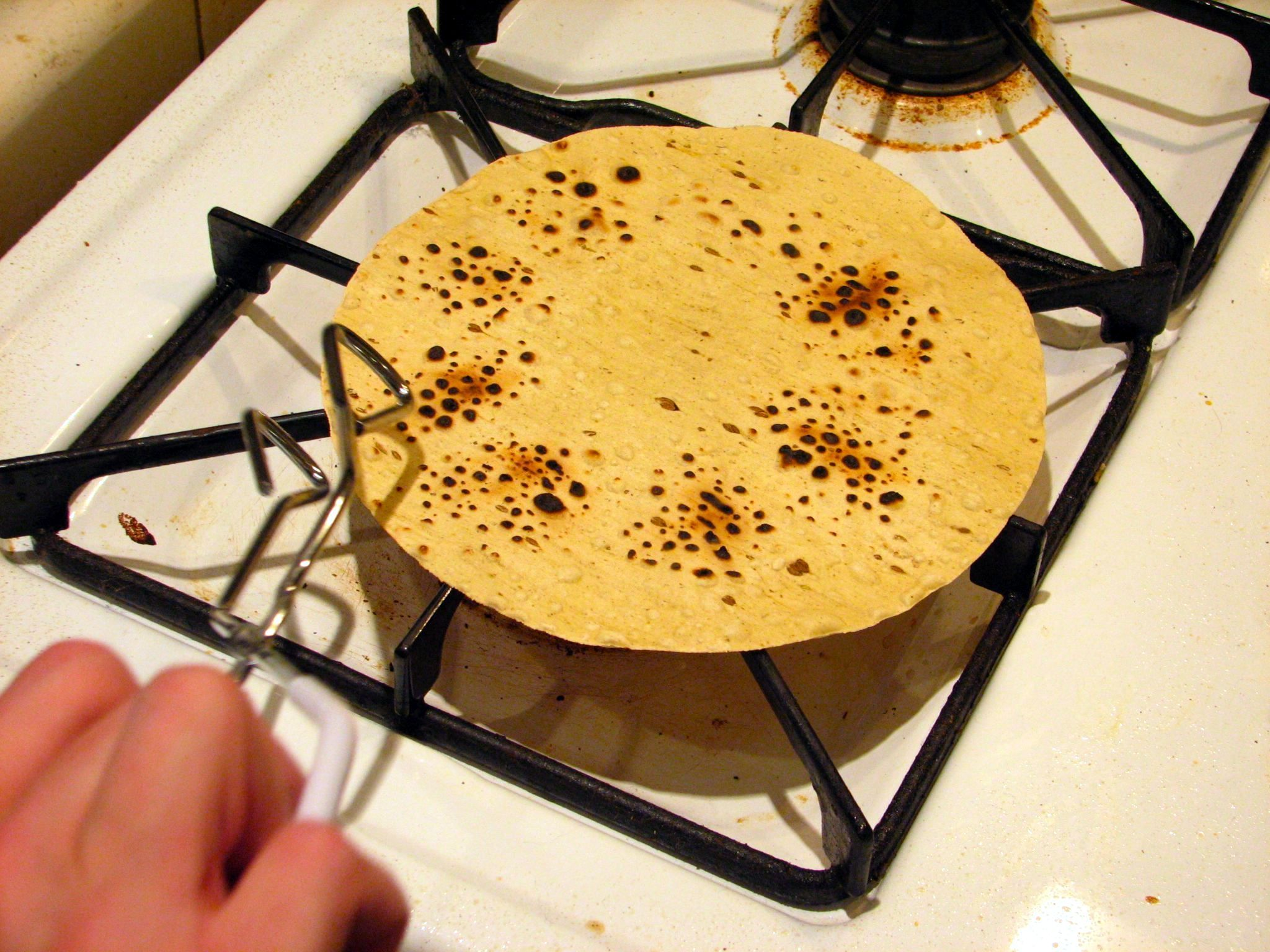 Roasting papadums on the burner of a gas stove